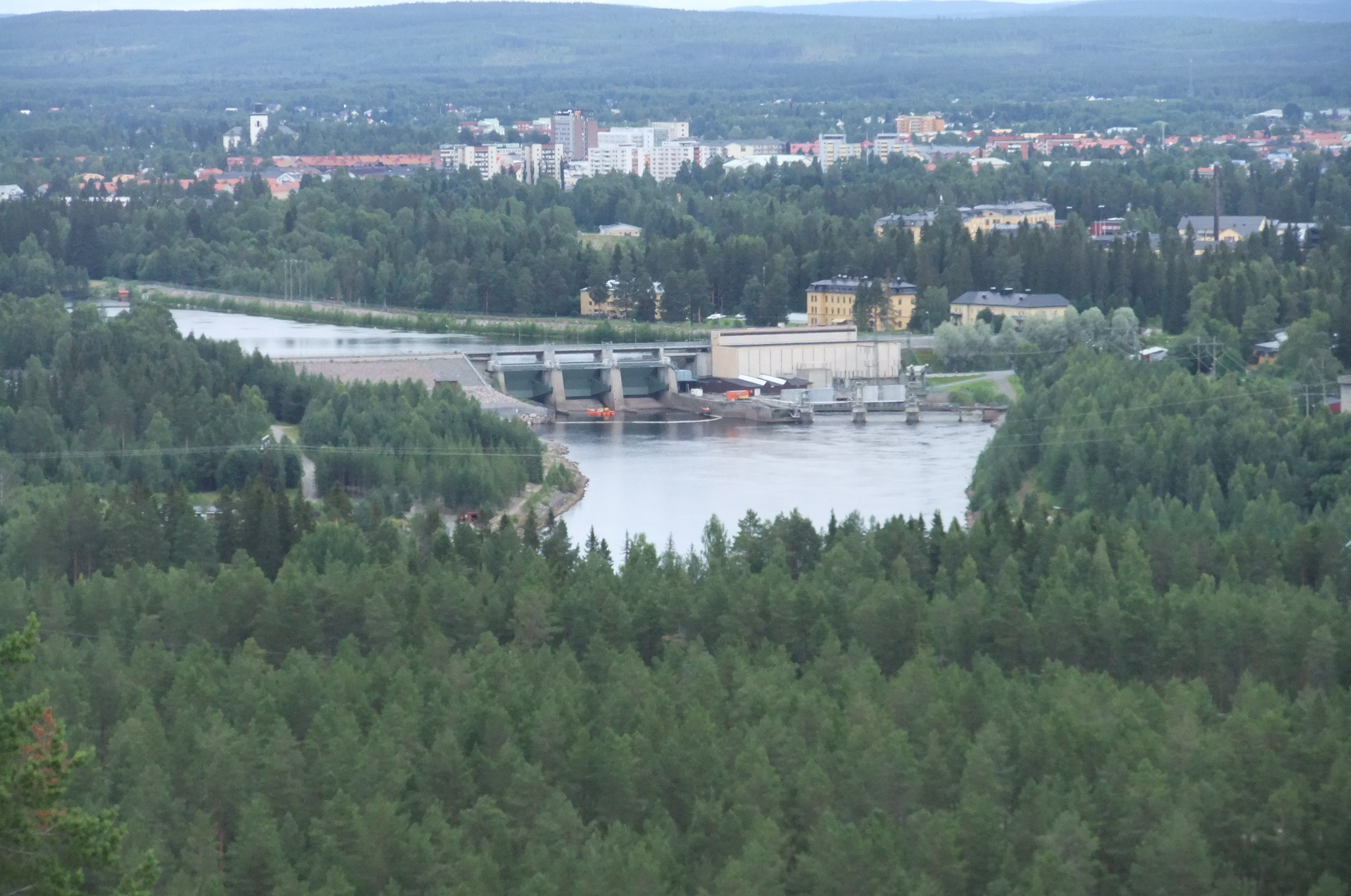 The hydroelectric power plant of Boden, as seen from Rödbergsfortet.